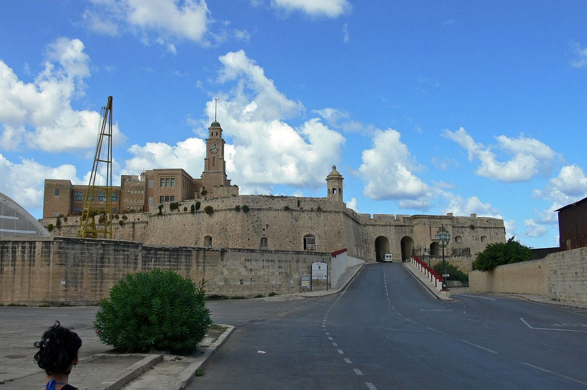 The massive gates of Isla (Senglea), Malta